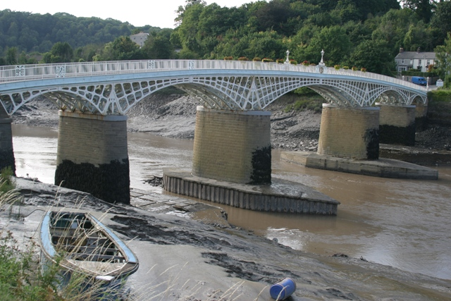 Chepstow Bridge taken off river bank near pub